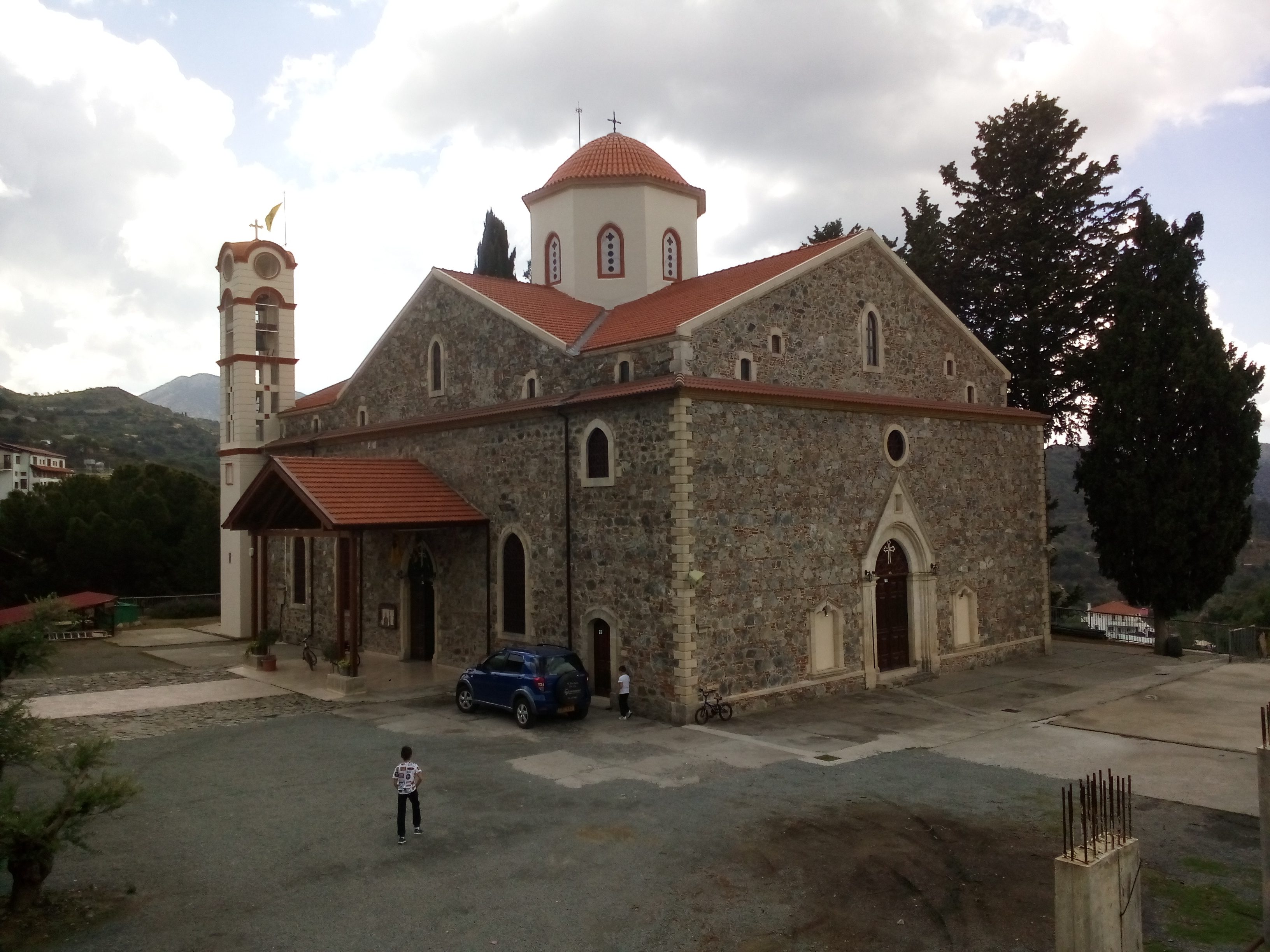 Panagia Eleousa, Agros, Cyprus